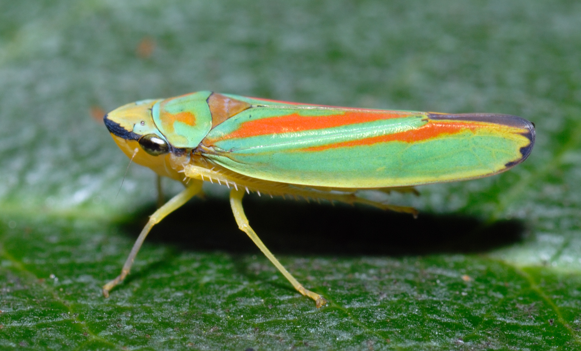 This image shows a cicada of the species Graphocephala fennahi with a length of about 0.3 inch.